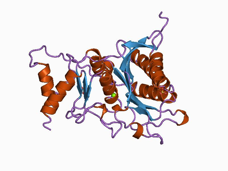 Cartoon representation of the molecular structure of protein registered with 1bk4 code.